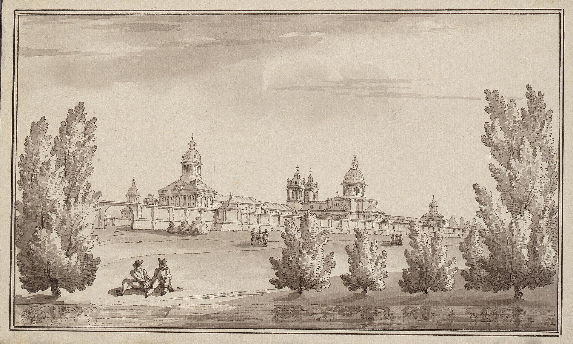 Alexander Nevsky Lavra